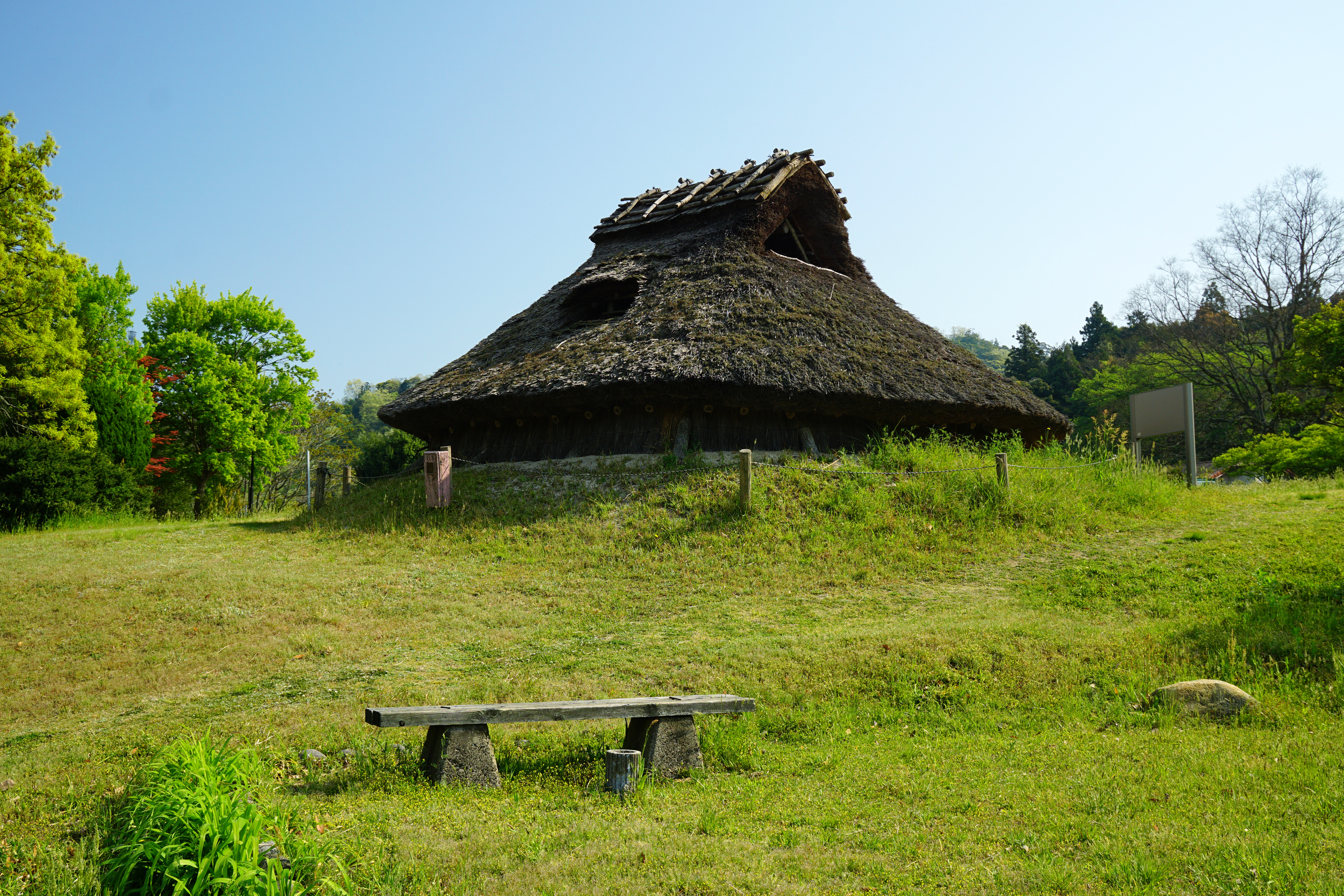 Izumo Tamatsukuri Historical Park, Matsue, Shimane prefecture, Japan.